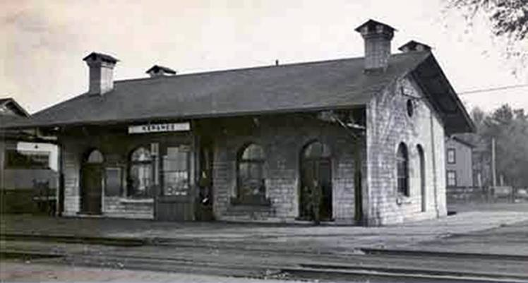 Napanee Train Station. Probably taken from a postcard